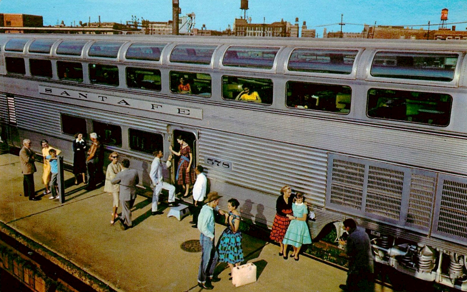 Postcard photo of a car on the Santa Fe Railway's El Capitan streamliner.